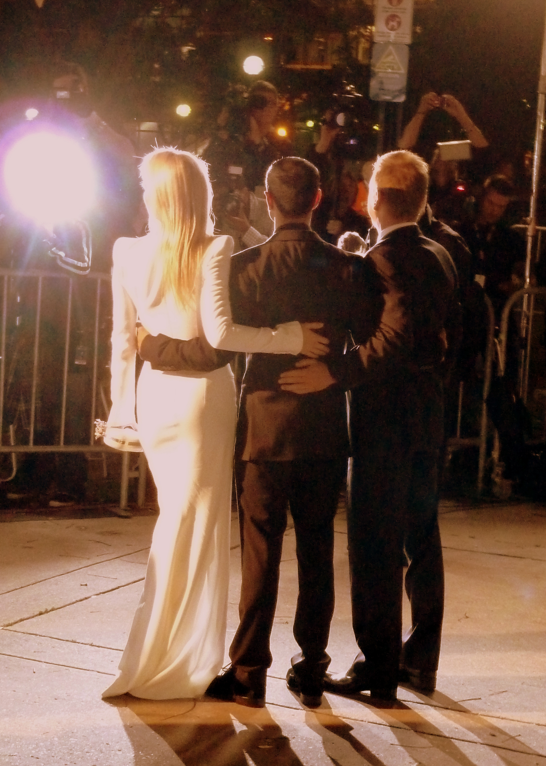 Kate Hudson, Riz Ahmed, Kiefer Sutherland at the premiere of The Reluctant Fundamentalist, Toronto Film Festival 2012